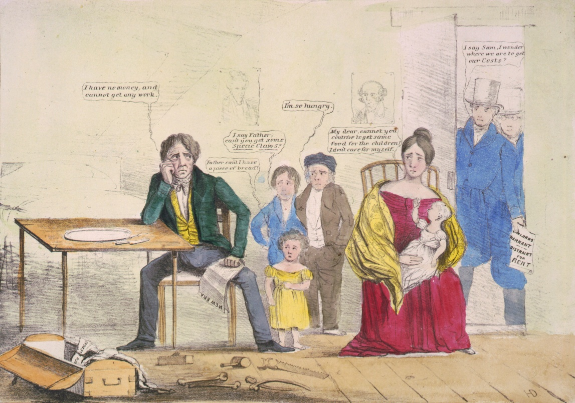 US Whig poster showing unemployment in 1837